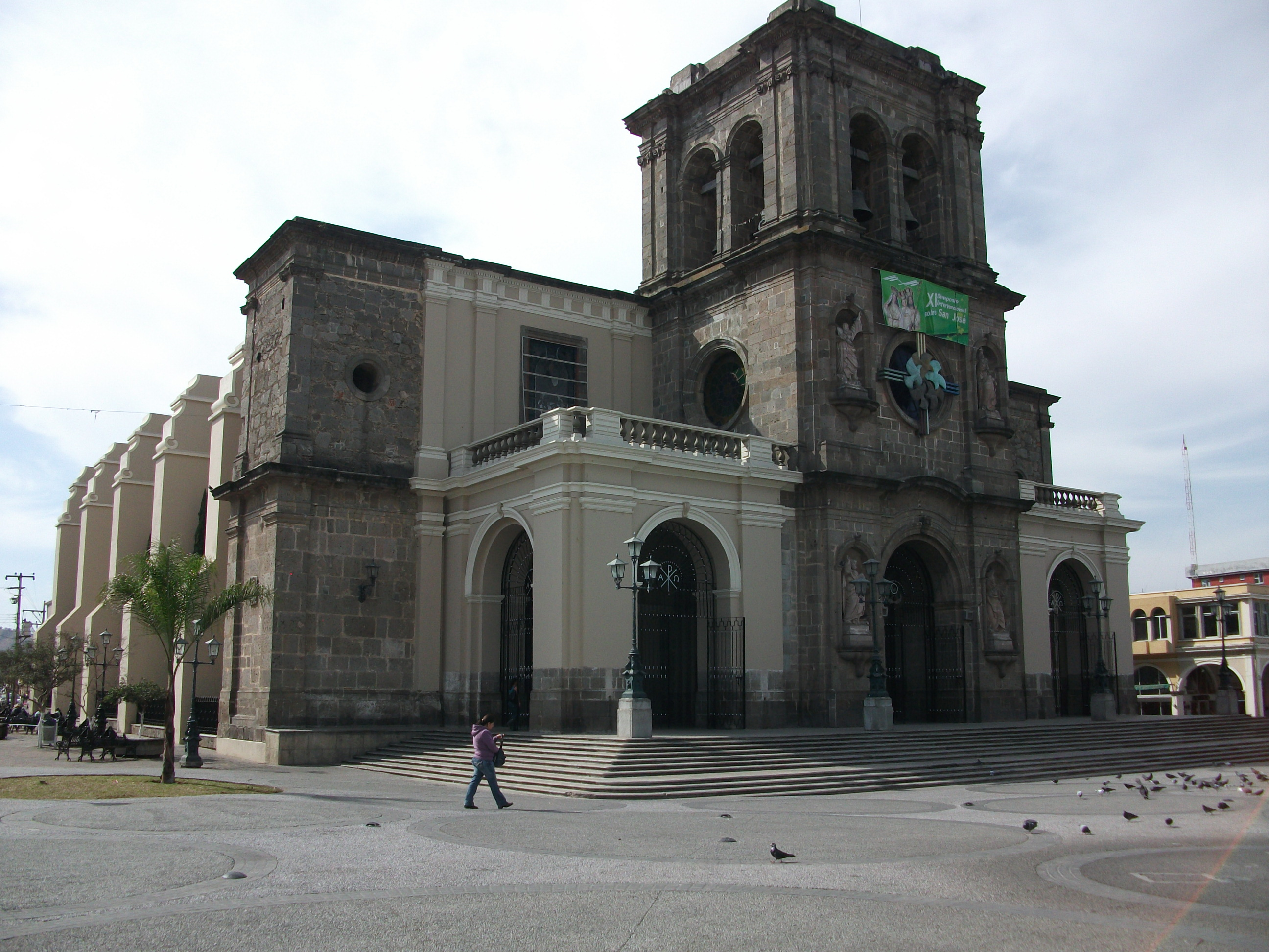 Cathedral, Ciudad Guzmán, Jalisco, Mexico